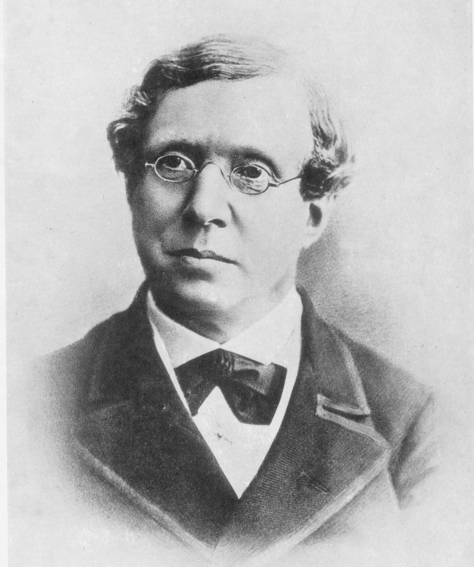 Scanned photograph